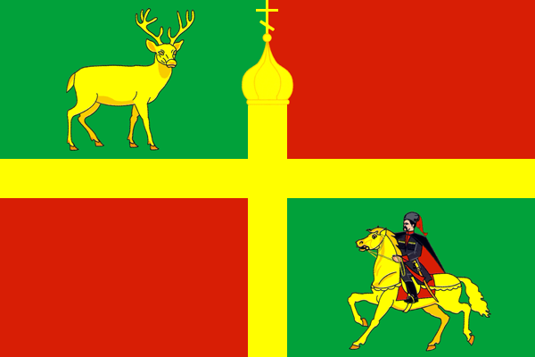 Flag of Krasnoarmeisky rayon, Krasnodar Territory, Russia